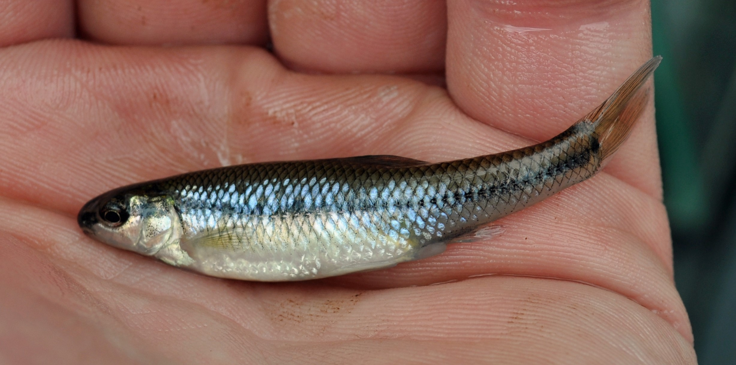 A central stoneroller (Campostoma anomalum) from a tributary of the Kaskaskia River in Illinois.